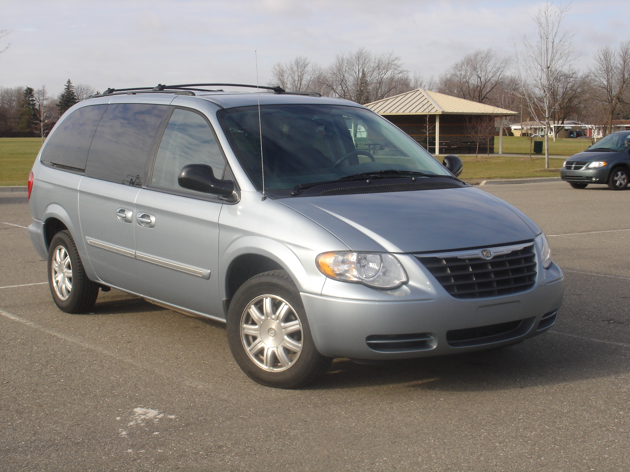 2004 Chrysler Town and Country